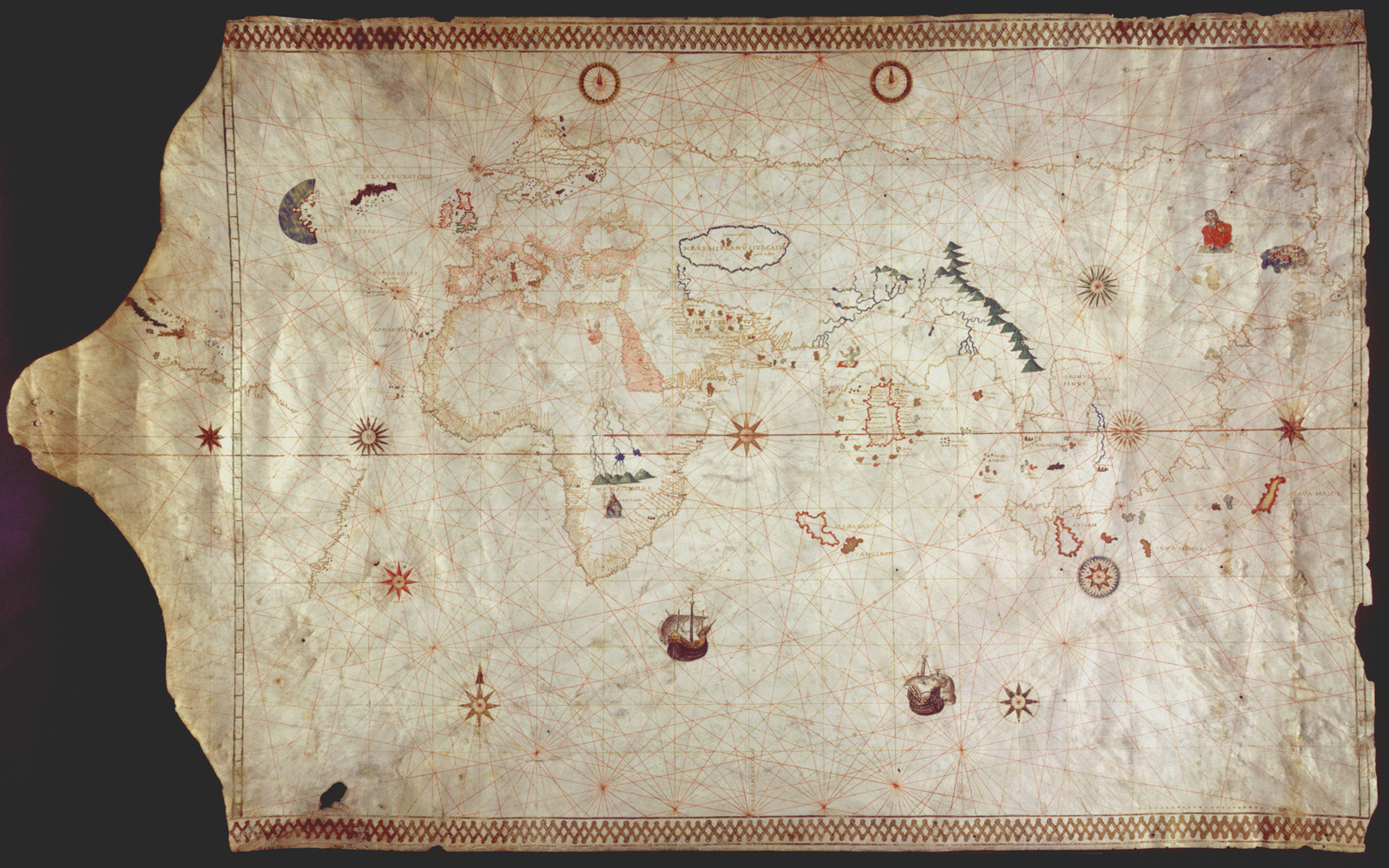 King-Hamy world map, 1502-1504